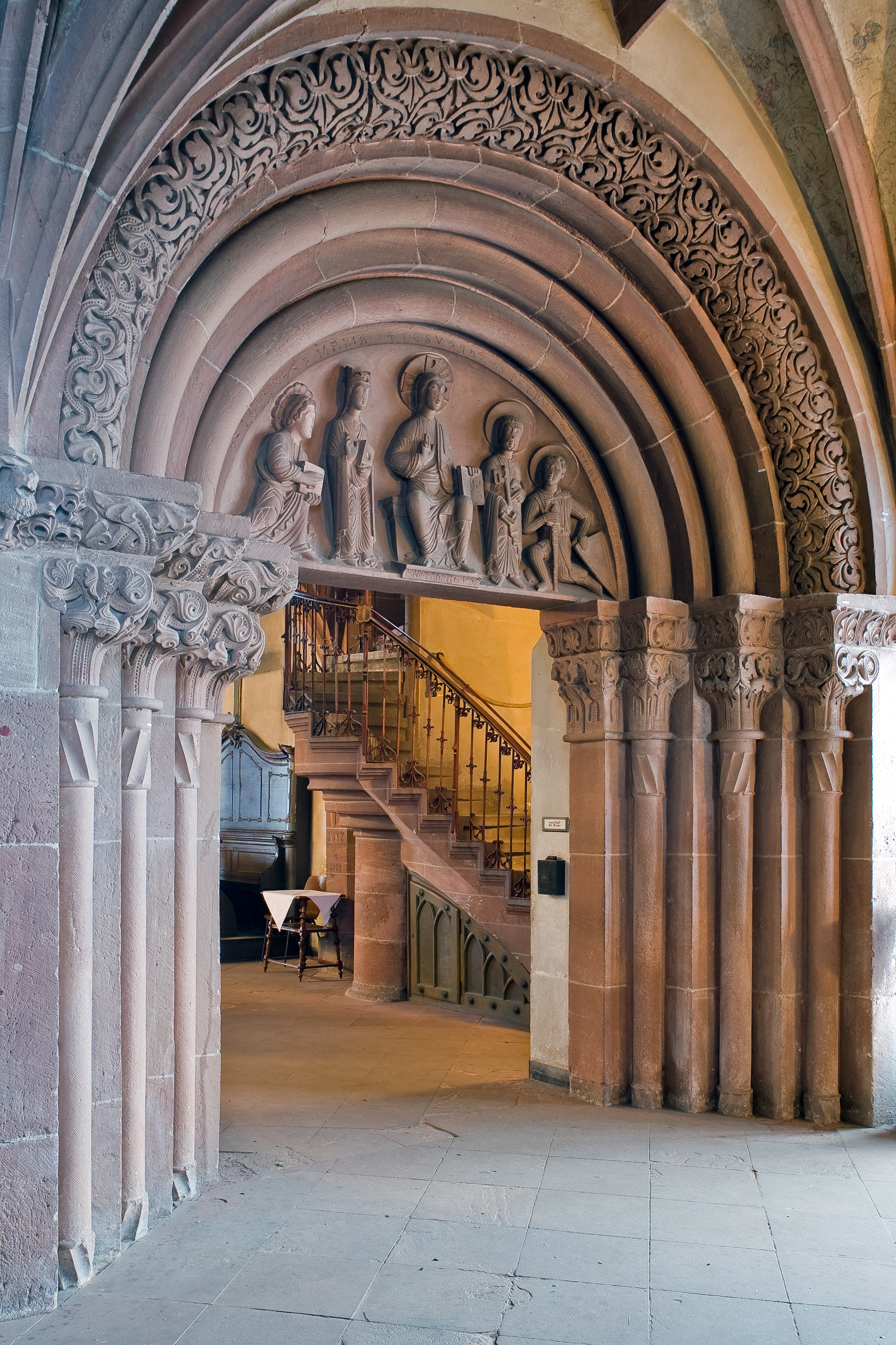 Frankfurt on the Main: St Leonard's Church, romanesque Engelbertusportal (Portal of Engelbertus) in the northern aisle as seen from the northeast